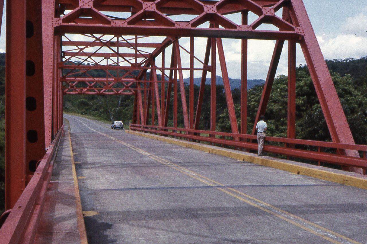 We've stopped on the bridge after swerving across the road when Sylvia (who was driving) spotted a Yellow-headed Caracara on a telephone pole!